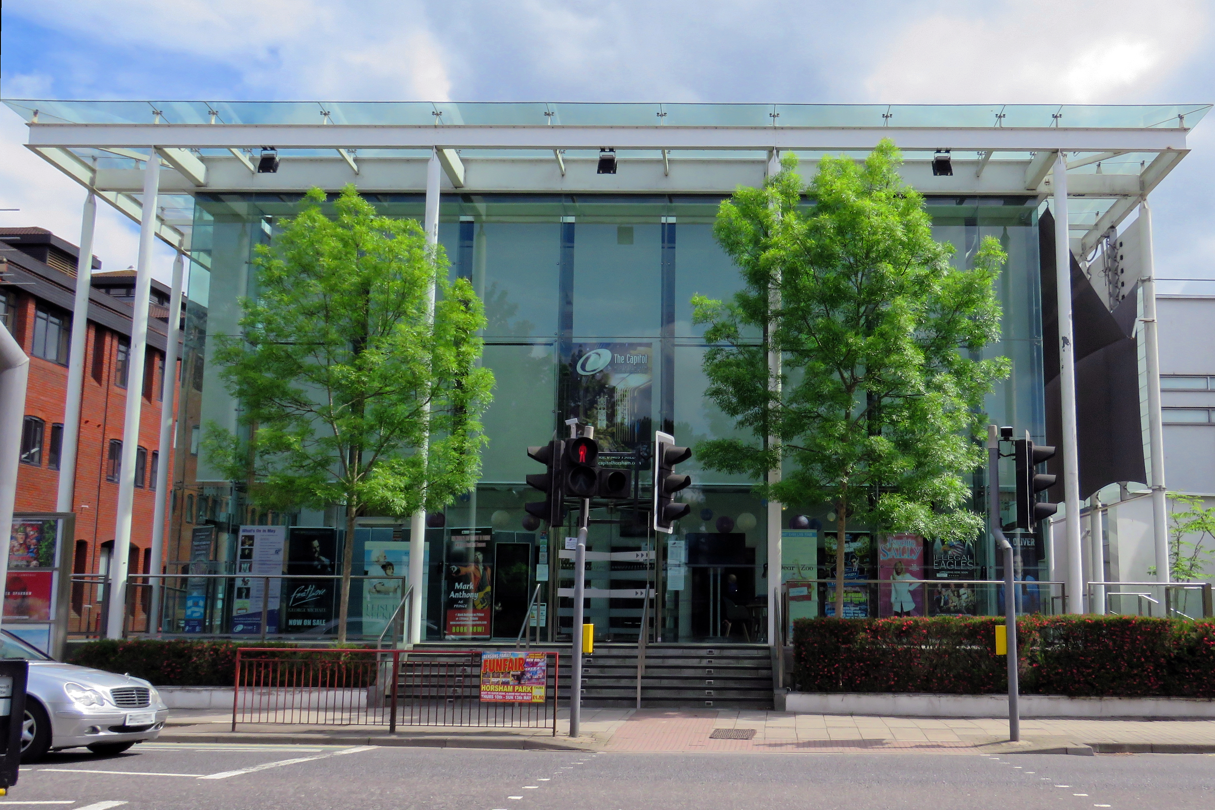 The Capitol theatre and cinema on North Street, Horsham, West Sussex, England.Camera: Canon PowerShot SX60 HSSoftware: File lens-corrected, optimized, perhaps cropped, with DxO PhotoLab, and likely further optimized with Adobe Photoshop CS2.